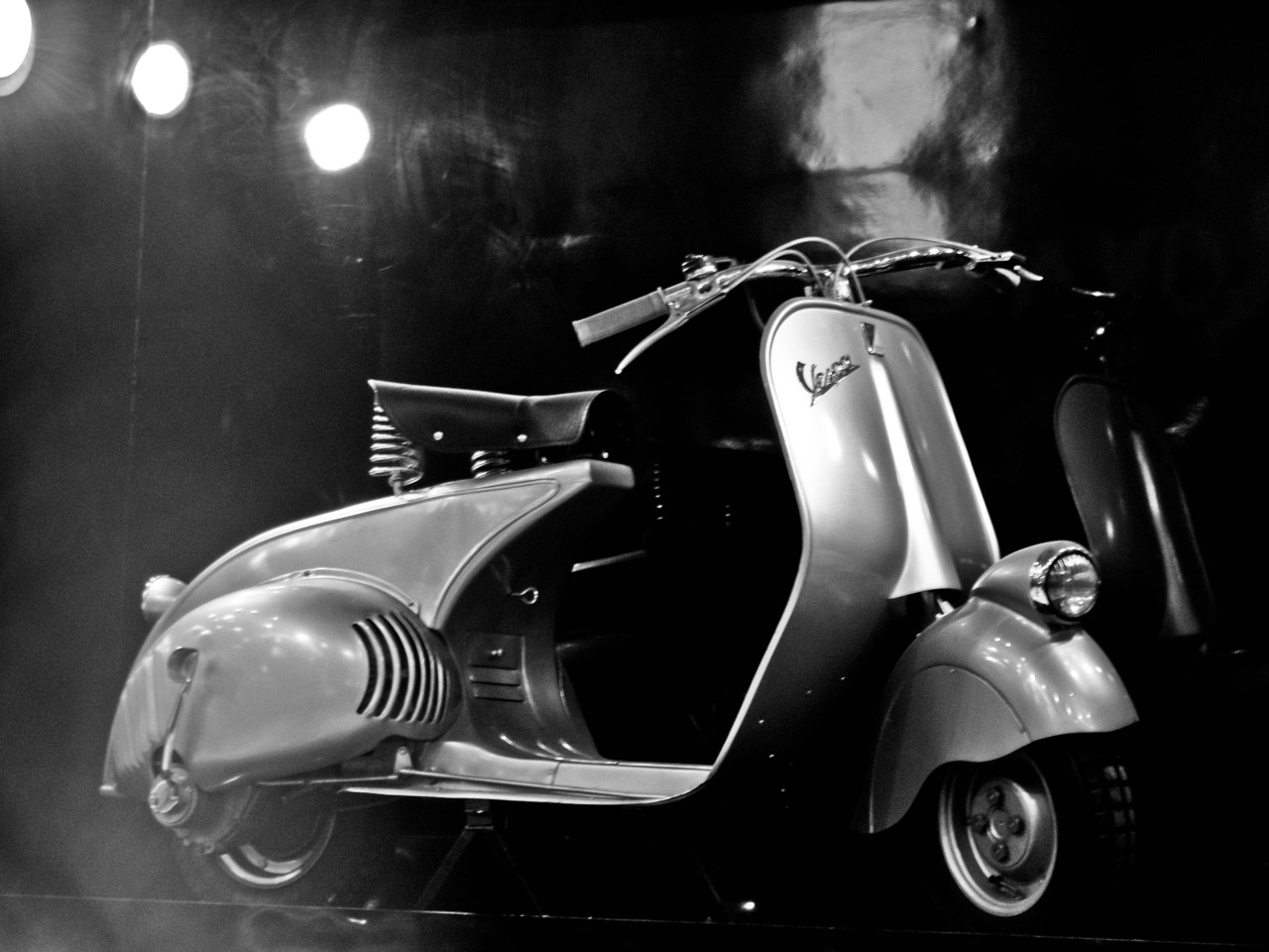 An old Vespa model on display at the Auto Expo in New Delhi, January 2012